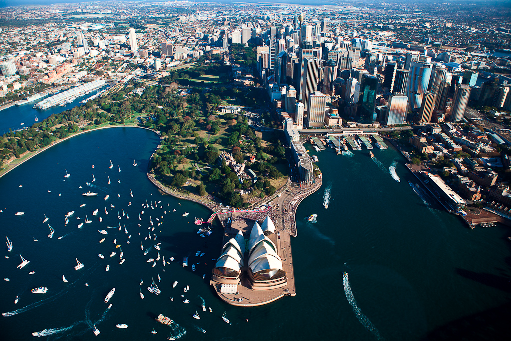 Sydney Opera house celebrating Jessica Watson.